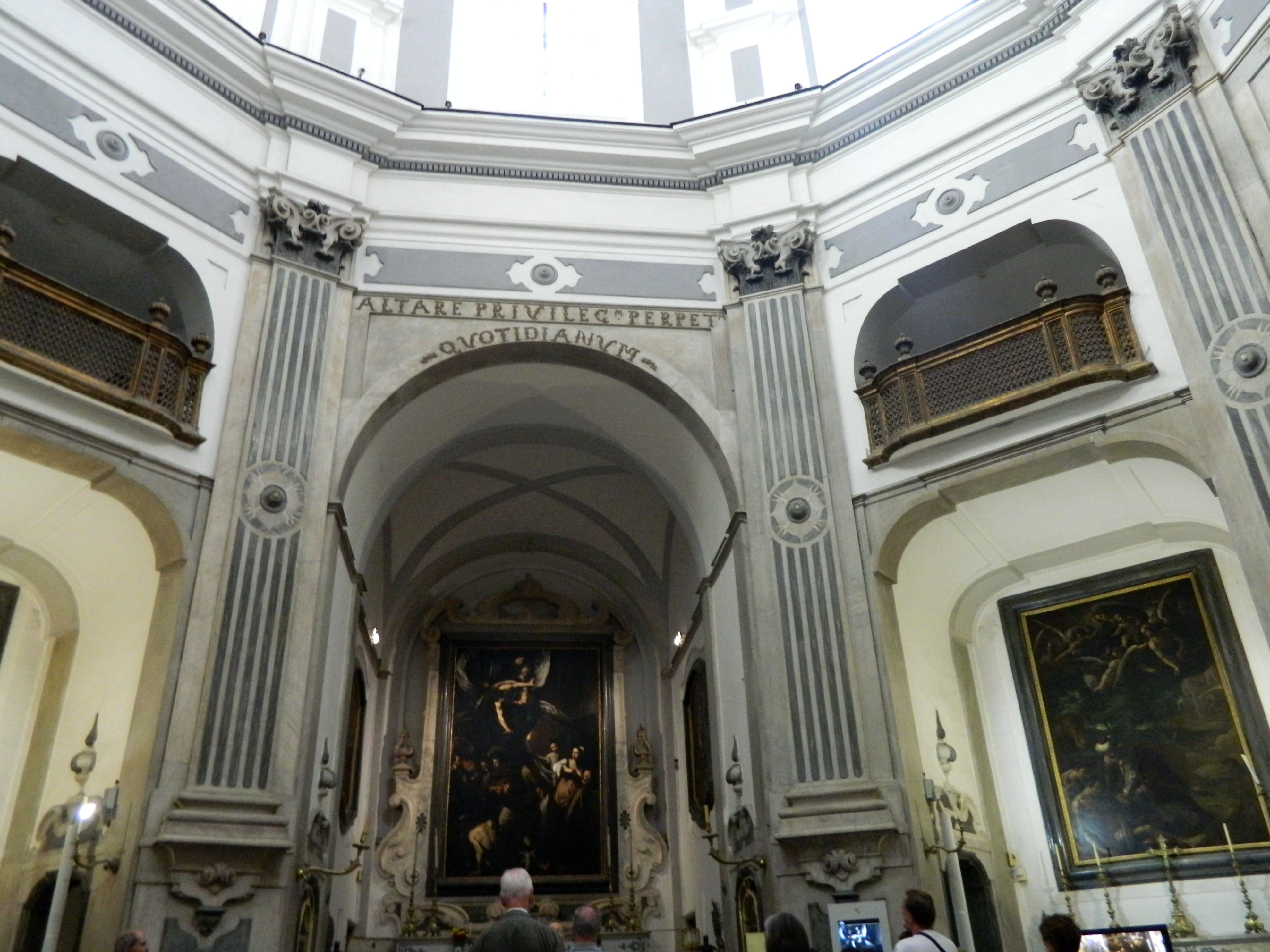 Pio Monte di Misericordia (Napoli) - Interno della chiesa verso le Sette opere di Misericordia di Caravaggio